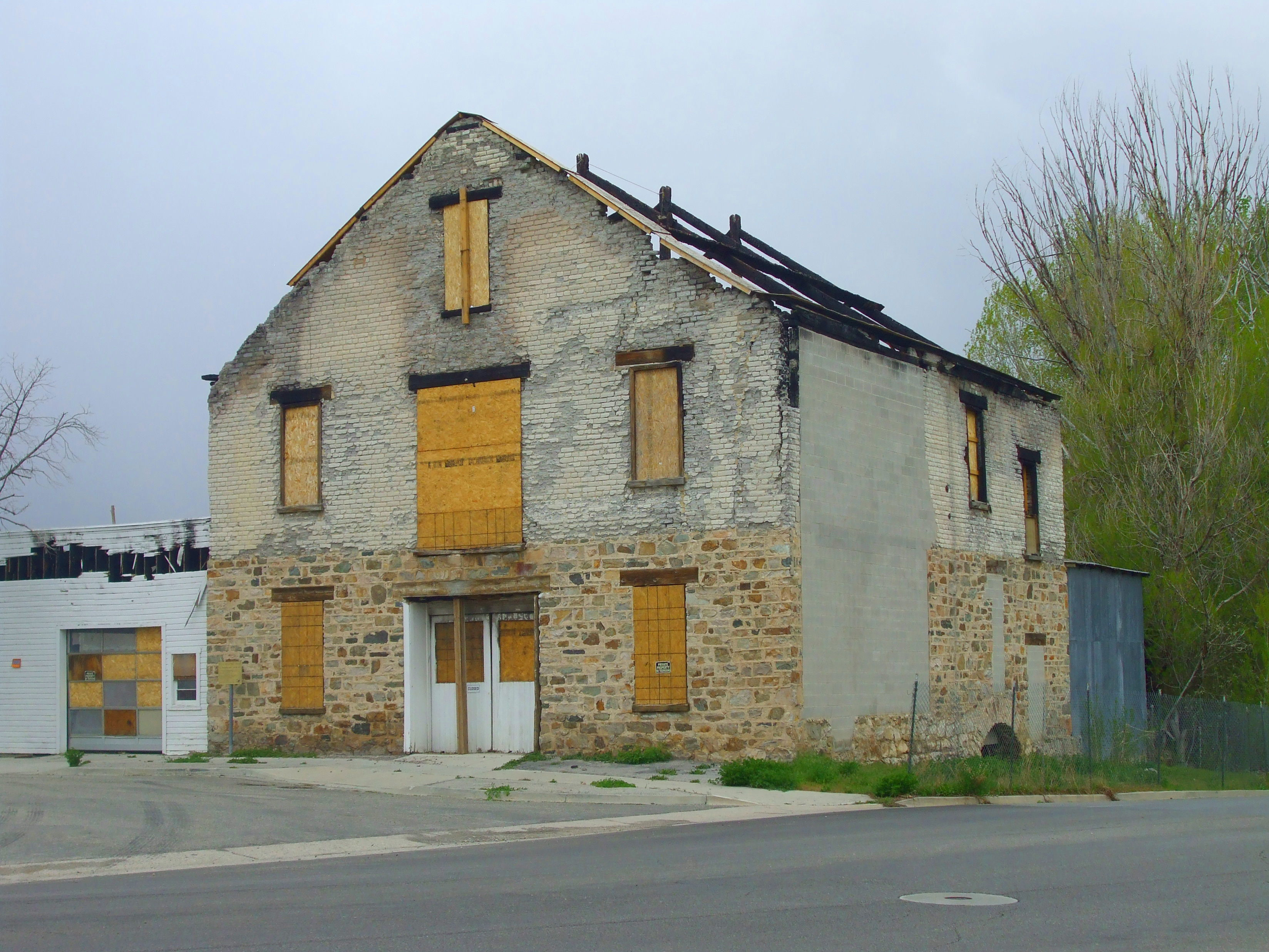 The Planing Mill of Brigham City Mercantile and Manufacturing Association, a historic building in Brigham City, Utah, United States.